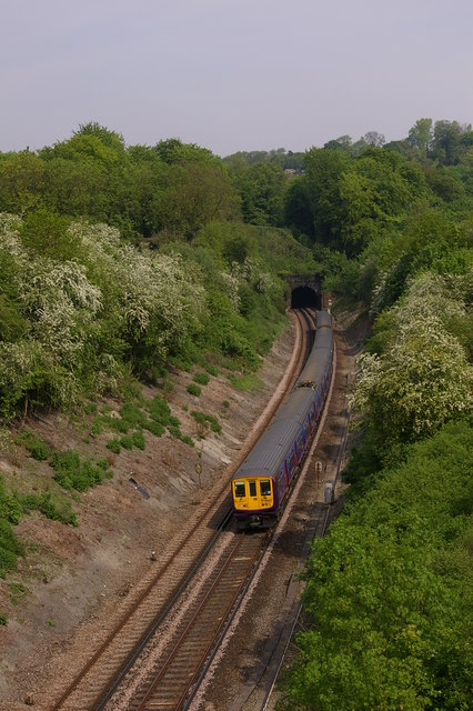 Quarry Tunnel, south portal A Class 319 Bedford - Brighton "Thameslink" working (actually now operated by First Capital Connect, but still always thought of as "Thameslink"), just emerged from Quarry Tunnel on the "Quarry Line". This is the name given to the line opened in 1899 by the London Brighton and South Coast Railway, bypassing the original line through Merstham and Redhill owned by the South Eastern Railway. The Quarry Line now serves as the fast lines from London Bridge/Victoria to Gatwick Airport and Brighton.